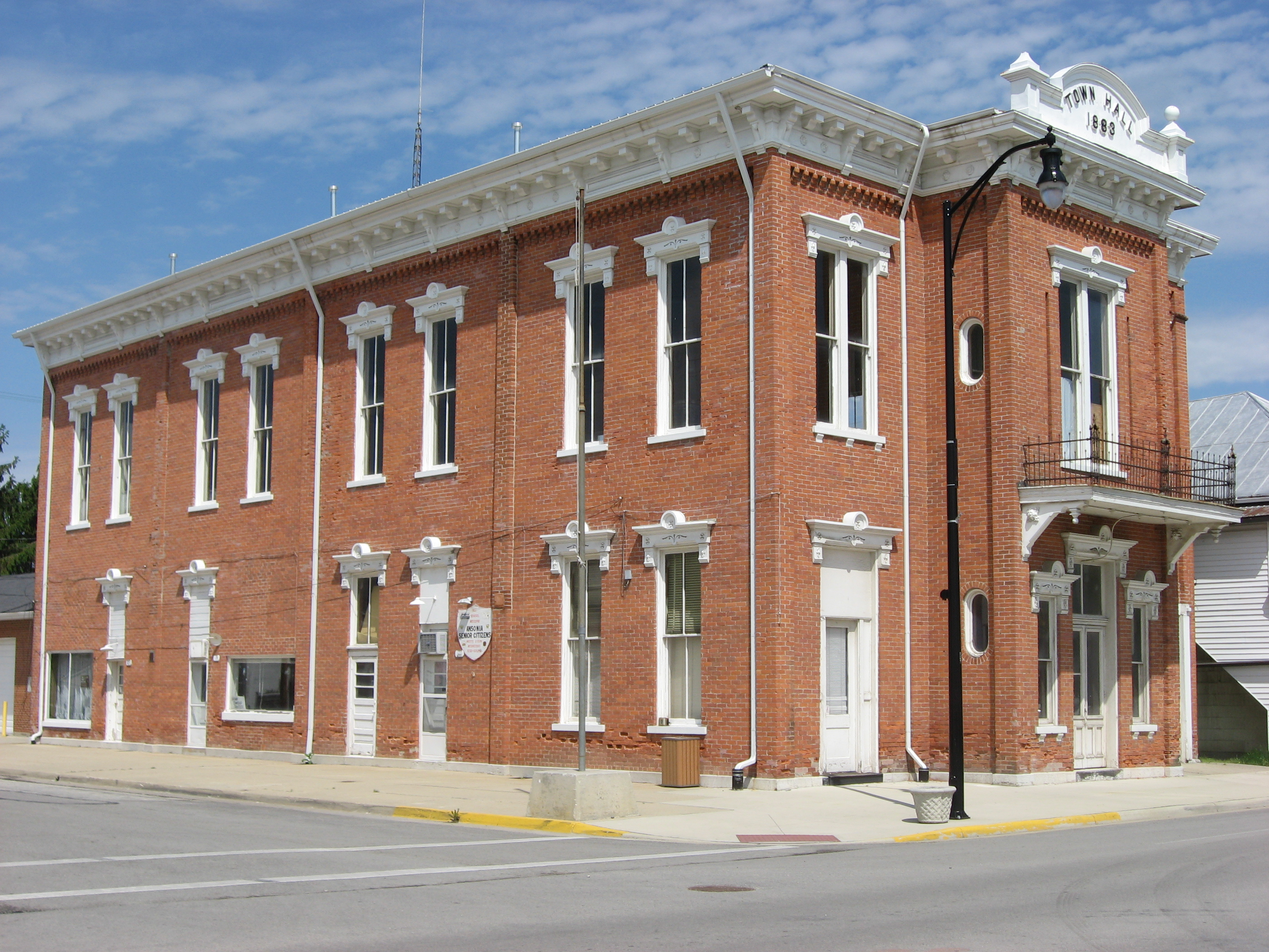 Front and southern side of the Brown Township Building, located on the northwestern corner of Main (State Route 118) and Weller Streets in central Ansonia, Ohio, United States. Built in 1883 and formerly used as a post office, it is listed on the National Register of Historic Places.